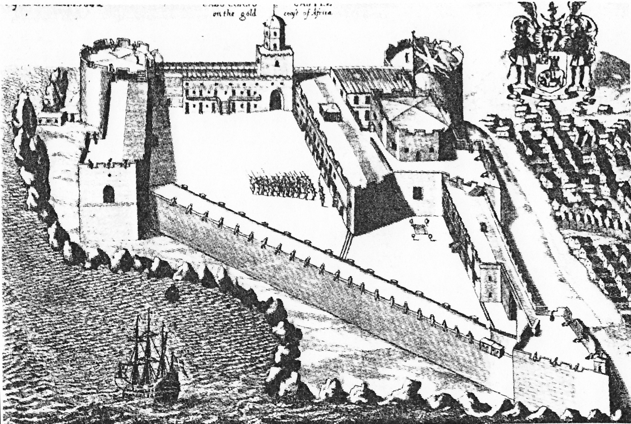 Cape Coast Castle in 1682 (Cape Coast, Ghana)